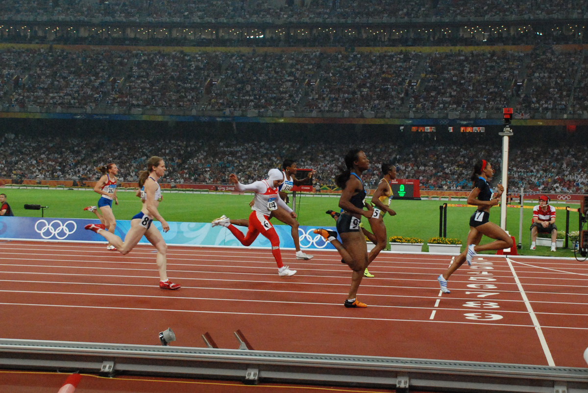 women's 200 meters semi-final at the bird's nest, Beijing, august 20th 2008. Aleksandra Fedoriva, Emily Freeman, Roqaya Al-Gassra, Muriel Hurtis-Houairi, Marshevet Hooker, Sherone Simpson, Allyson Felix